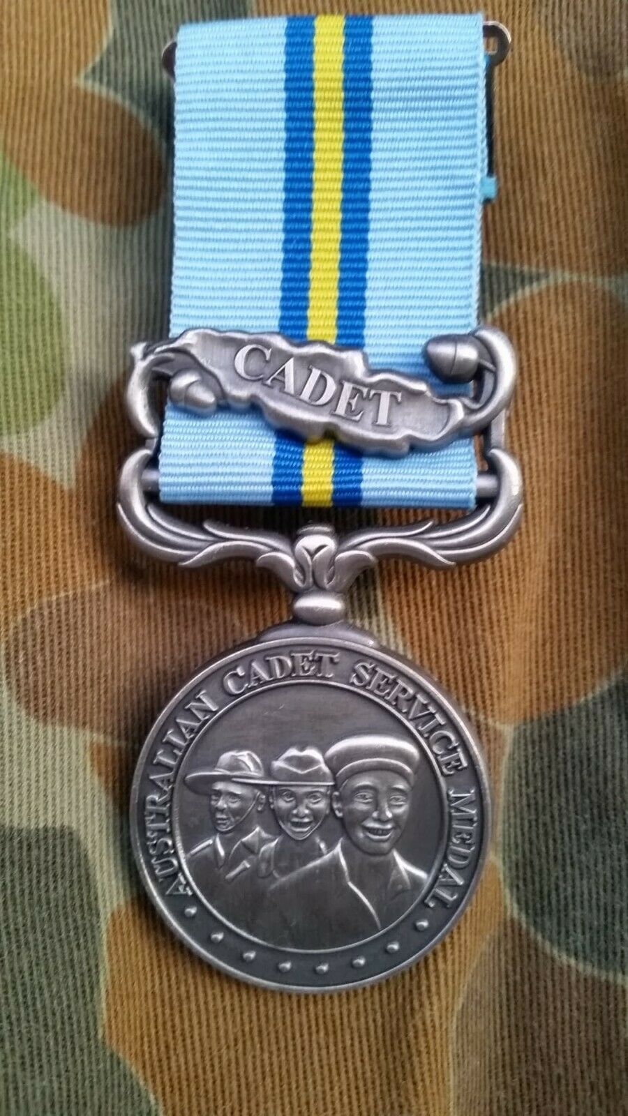 ADFC unofficial medal (Australian Cadet Service medal) created by Cadet Petty Officer Benjamin Bishop